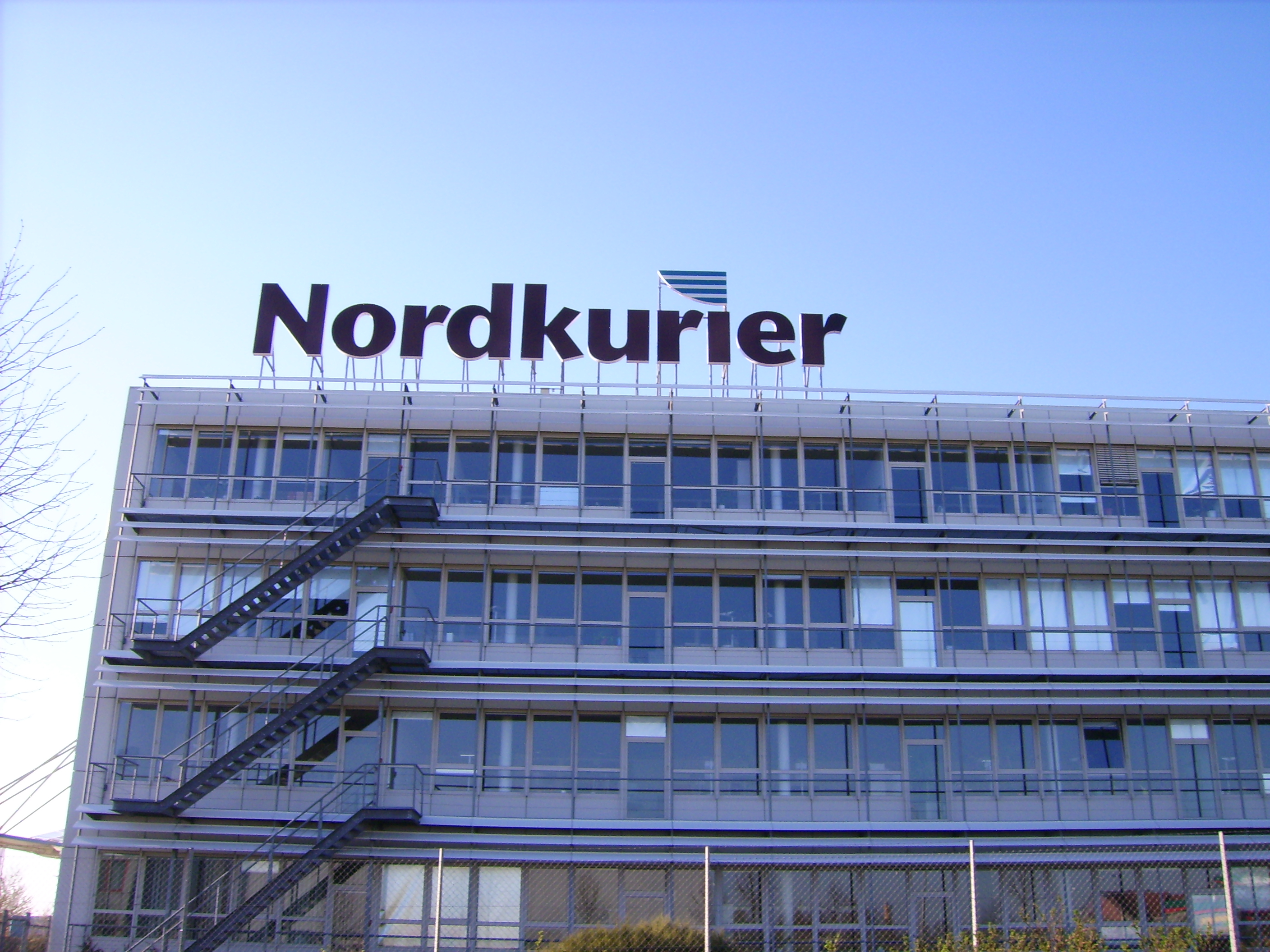 Printing and publishing house of the regional daily newspaper Nordkurier (North Courier) in the German town Neubrandenburg, Mecklenburg-Western Pomerania.